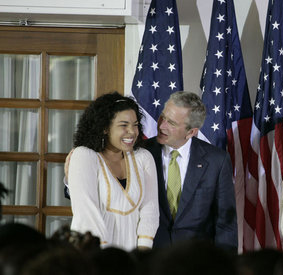 President George W. Bush congratulates singer Jordin Sparks after she sang the U.S. National Anthem Wednesday, February 20, 2008, during the welcome for President Bush and Mrs. Laura Bush to the U.S. Ambassador's Residence in Accra, Ghana, by Ambassador Pamela E. Bridgewater.